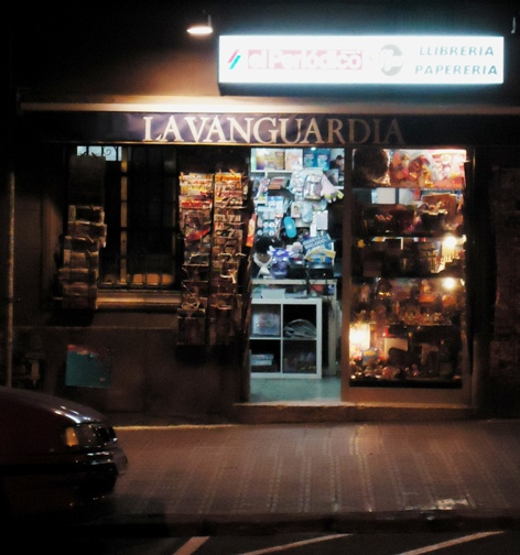 Newspaper shop in Barcelona